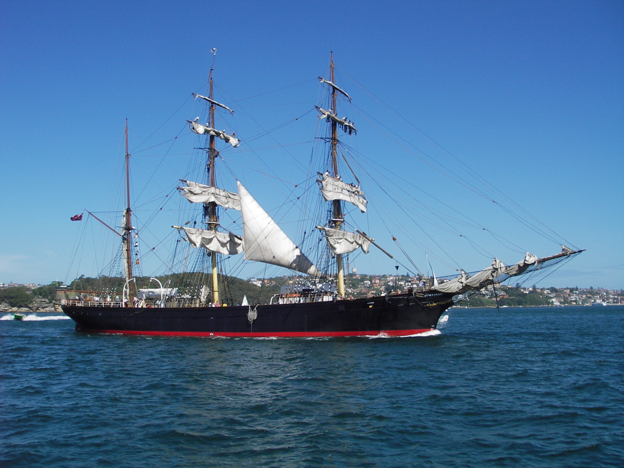 This is a Photo of the James Craig, a Barque built in 1874 and restored in 1997. This photo was taken on Sydney Harbour just north of Rose Bay.